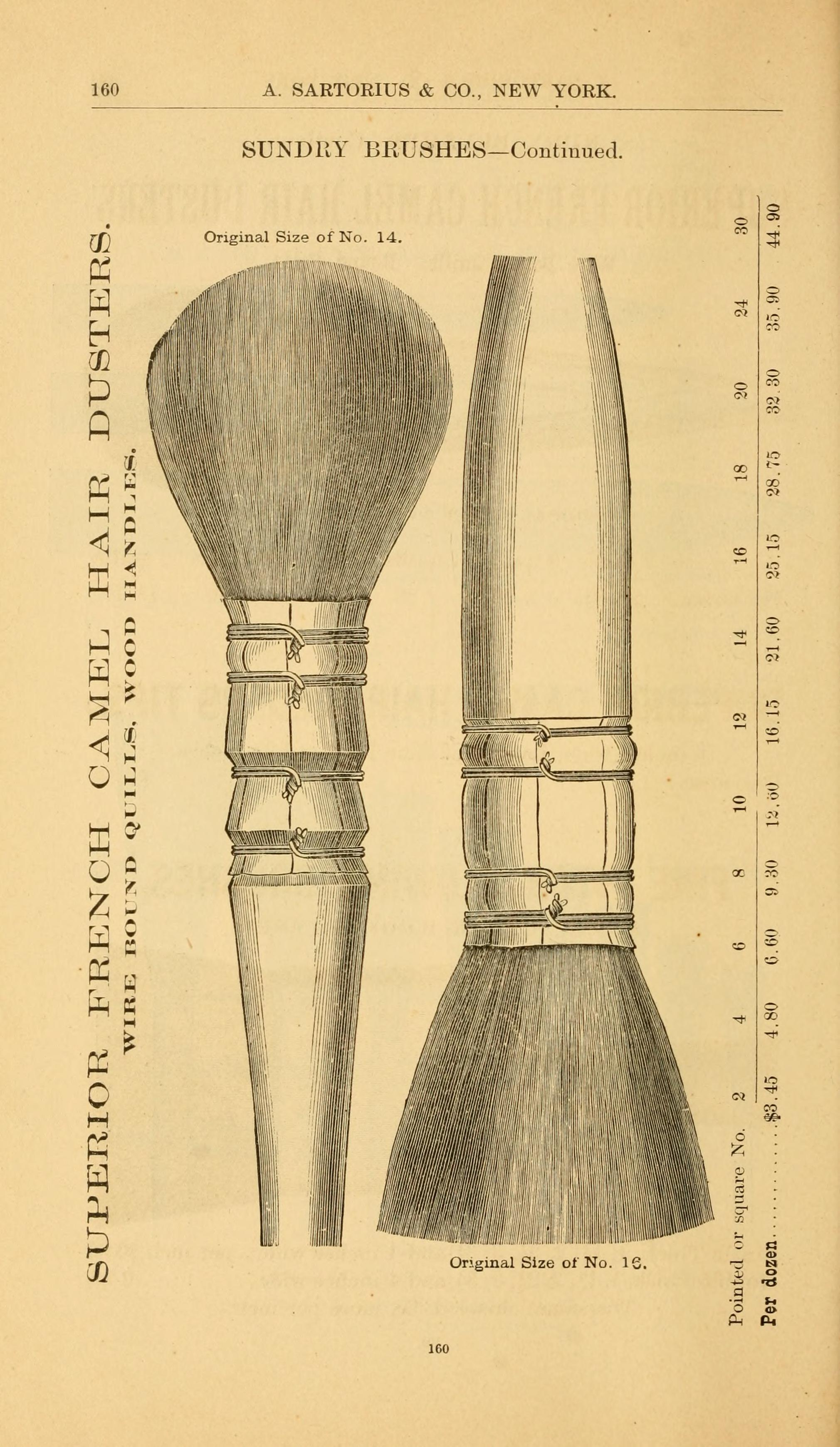 Title: Illustrated catalogue and price list of artists' materials, gold paint, bronze powders, metallics, metal leaf, &c. : colors and materials for china and glass painting ; colors and materials for oil, water color & pastel painting and drawing, &c. Year: 1894 (1890s) Authors: A. Sartorius & Co. (New York, N.Y.) Subjects: Artists' materials--Catalogs Trade catalogs--Artists' materials. Publisher: A. Sartorius, New York Text Appearing Before Image: 70 10.75 , S Length of Hair: 14 Ia I-i 1.« ».!) 1.00 1.20 1.40 PER DOZEN.Assorted sizes, $1.0r) per dozen. 159 l?^inch.1 .0.^ 160 A. SARTORIUS & CO., NEW YORK SUNDRY BRUSHES—Continued. Original Size of No. 14 Text Appearing After Image: Original Size ot No. 16. o --J N a A. SARTORIUS & CO., NEW YORK. 161 SIINDEY BRUSHES—ContinnevT. SUPERIOR FRENCH CAMEL HAIR DUSTERS Wire Bound Quills. Hound Point.